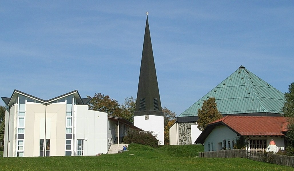 Salzweg, St Rupert Parish Church from south.